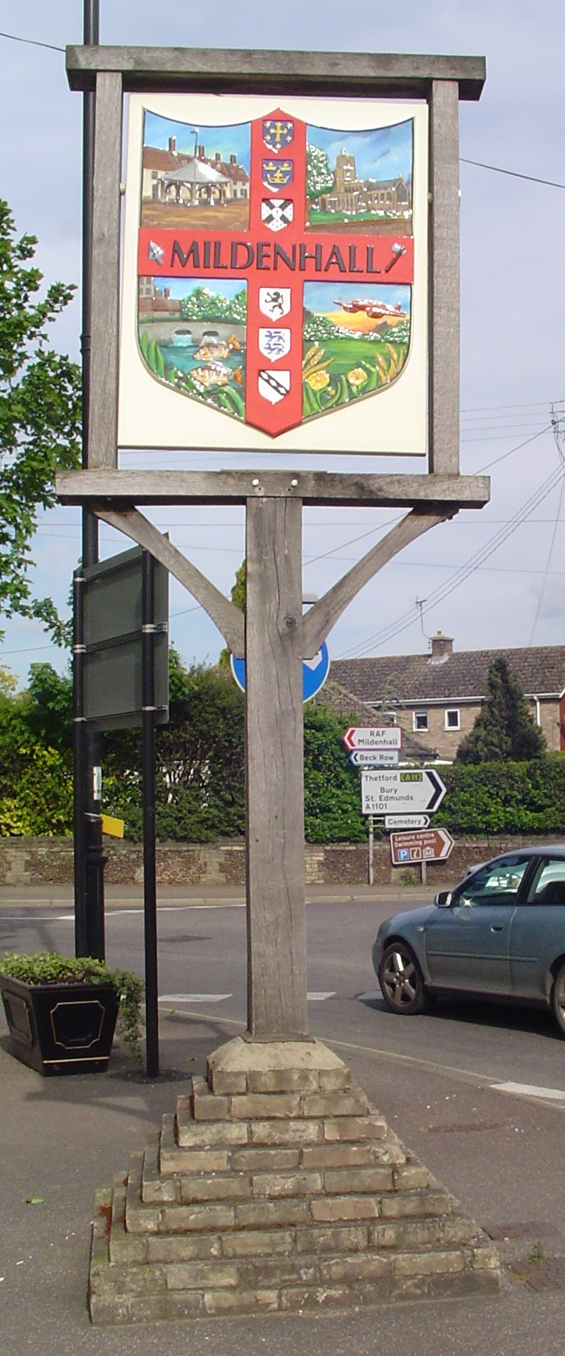 Signpost in Mildenhall, Suffolk